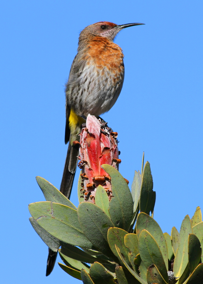 Gurney's Sugarbird, Promerops gurneyi at Marakele National Park